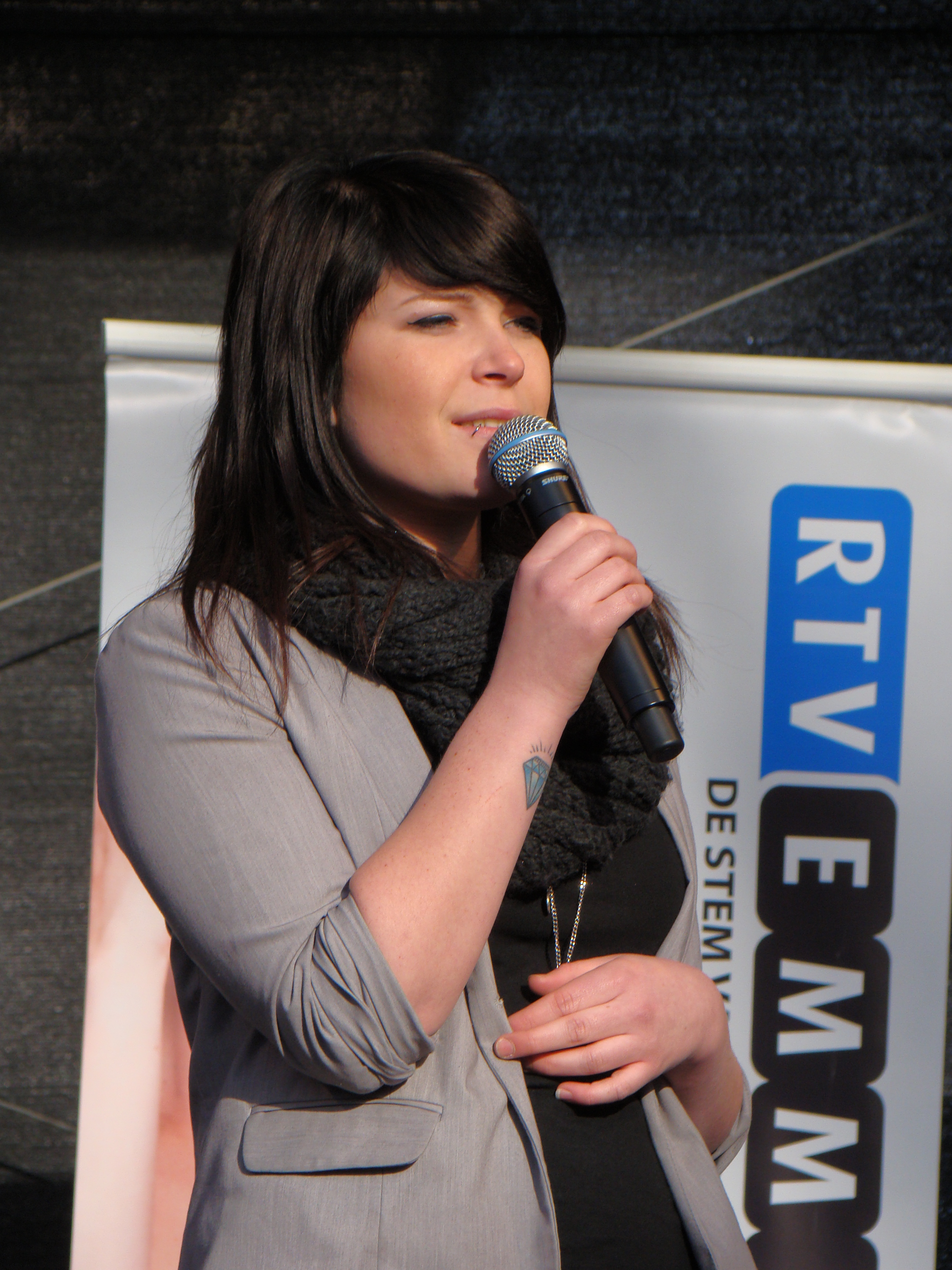 Singer Maaike Vos in Emmen during Radio 538 for War Child